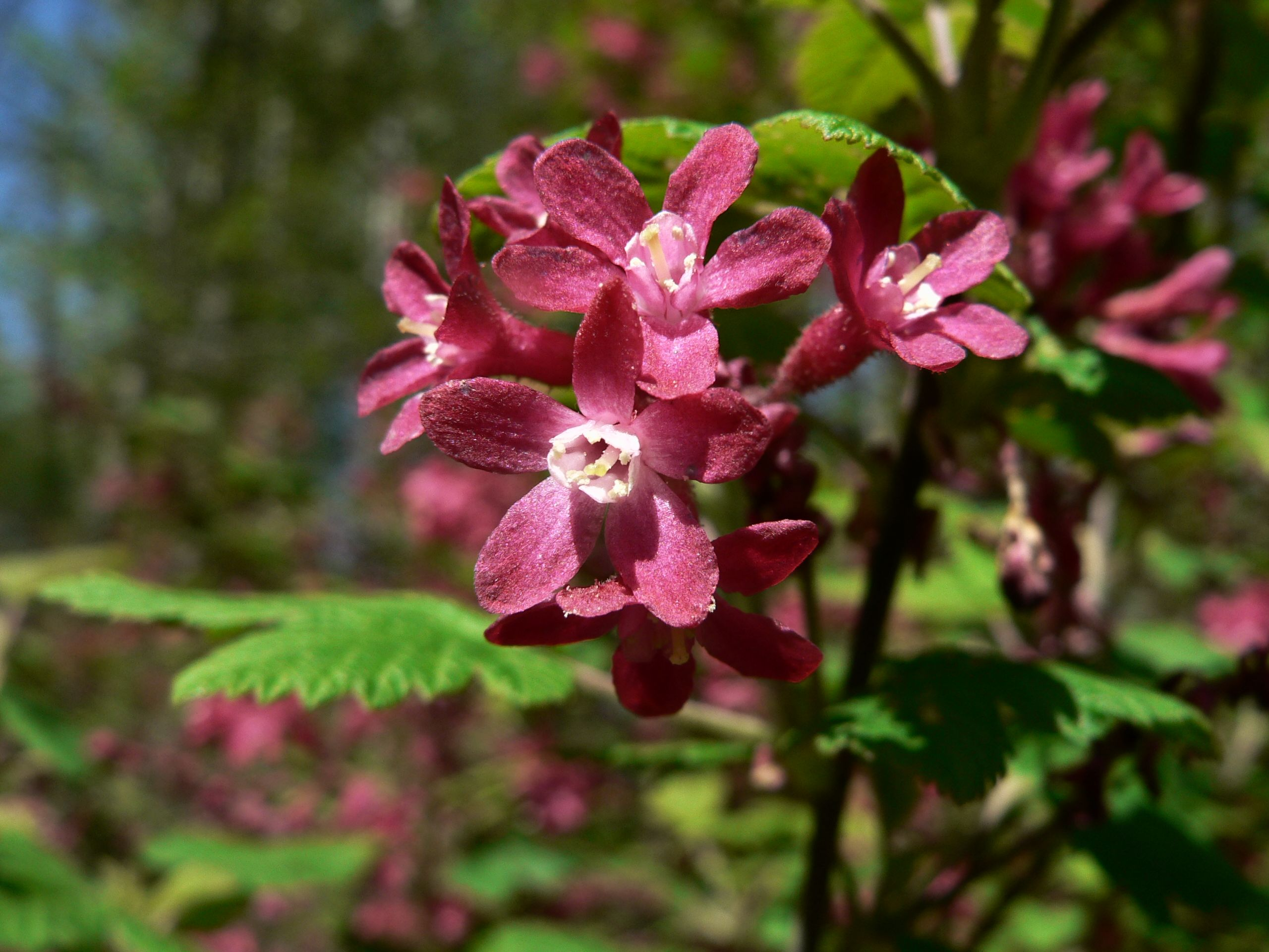 Flowering Currant